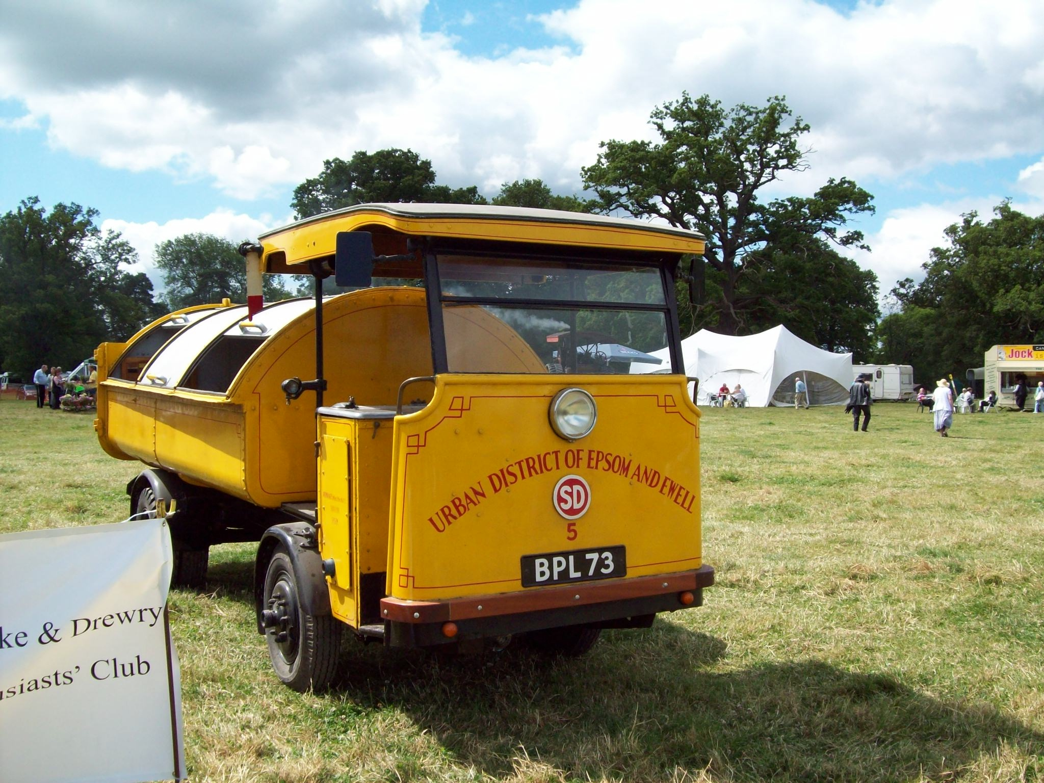 Shelvoke & Drewry Freighter Reg. No. BPL 73 EX-Epsom & Ewell seen at Edenbridge Rally 20.06.2009